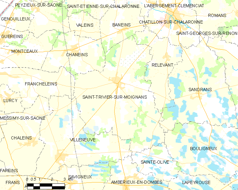 Map of French commune: Saint-Trivier-sur-Moignans Map commune FR insee code 01389.png